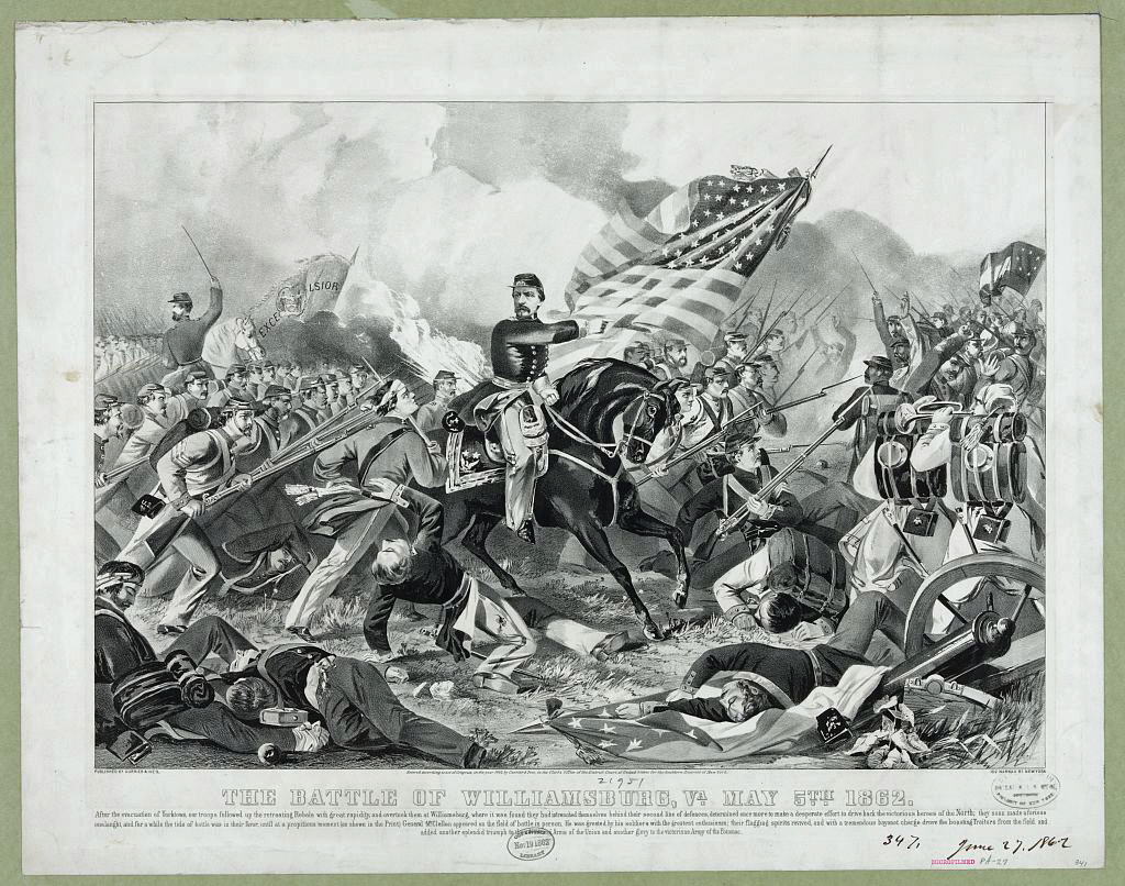 The Battle of Williamsburg, Va. May 5th 1862